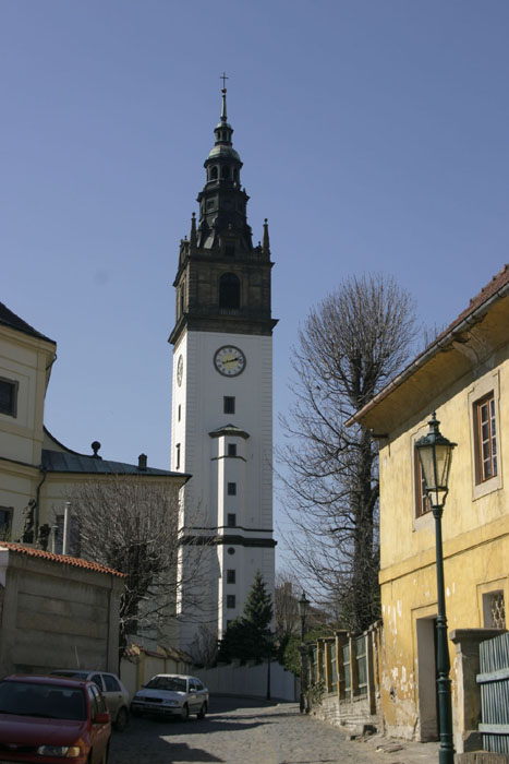 Belfry of St Stephen cathedral in Litoměřice, Czech Republic. A view from the ast, from Mácha Street.